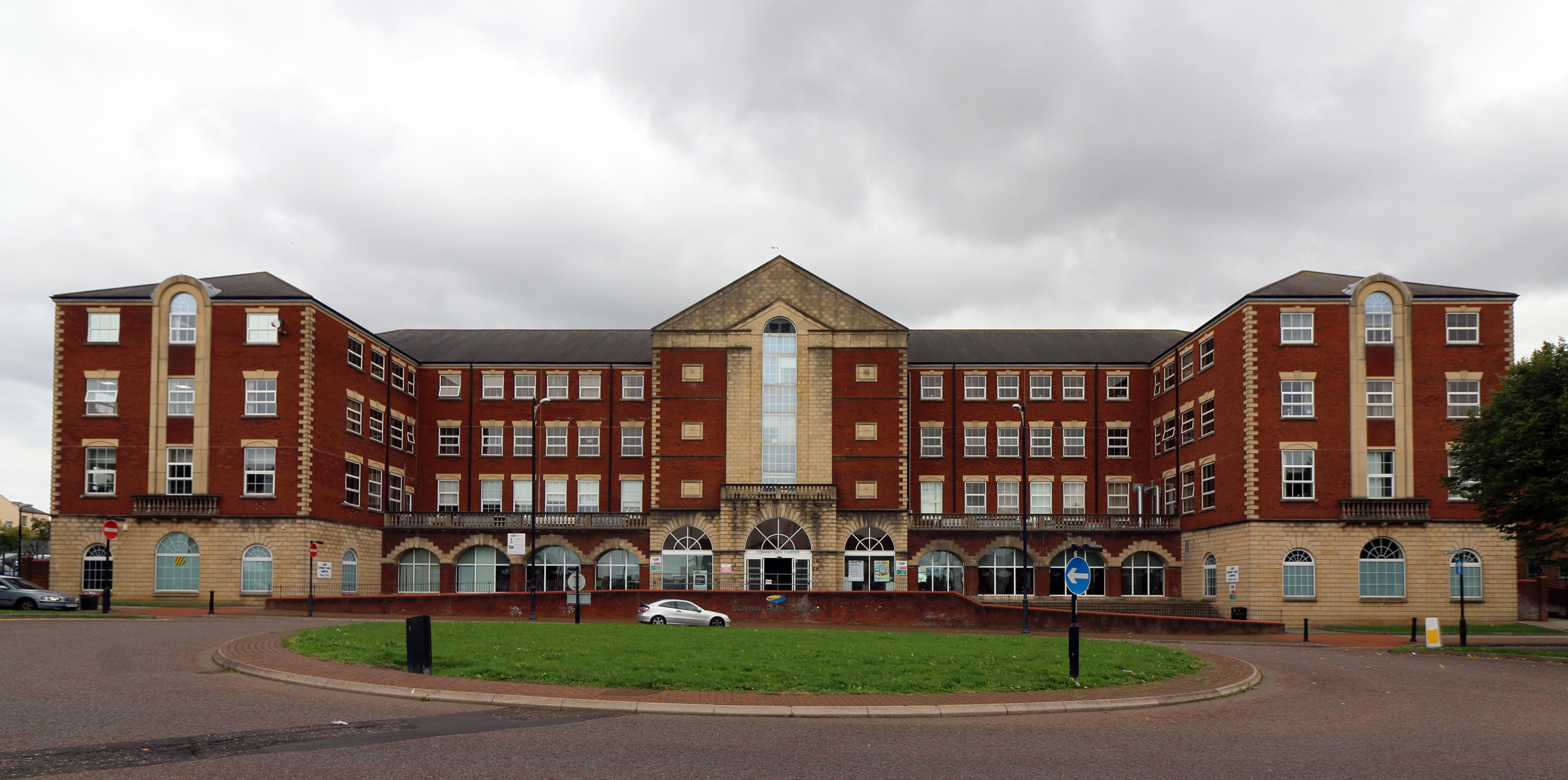 View across Europa Boulevard to the Wirral Metropolitan College building.